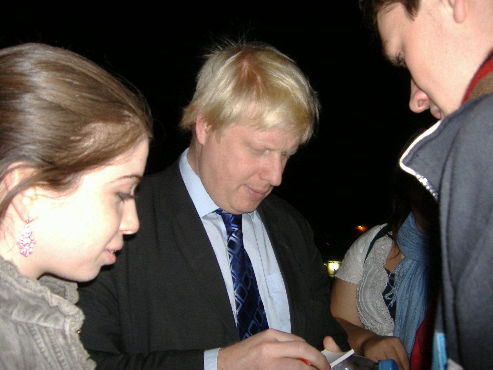 Boris Johnson visits Nottingham University.